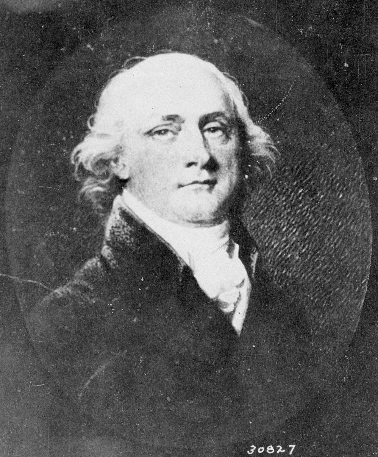 itle:Gov. John Francis Mercer. Author/Artist:Field, Robert, 1769?-1819, attributed to Creation Date:1803 Description:Graphic reproduction(s) with documentation of a miniature. 2 7/8 x 2 3/8 in. (oval). on ivory. Provenance:(d) Mr. William Robert Mercer, "Aldie," Doylestown, Pennsylvania, great-grandson of the subject; (d) Mrs. William Robert Mercer, Doylestown (died 1960).